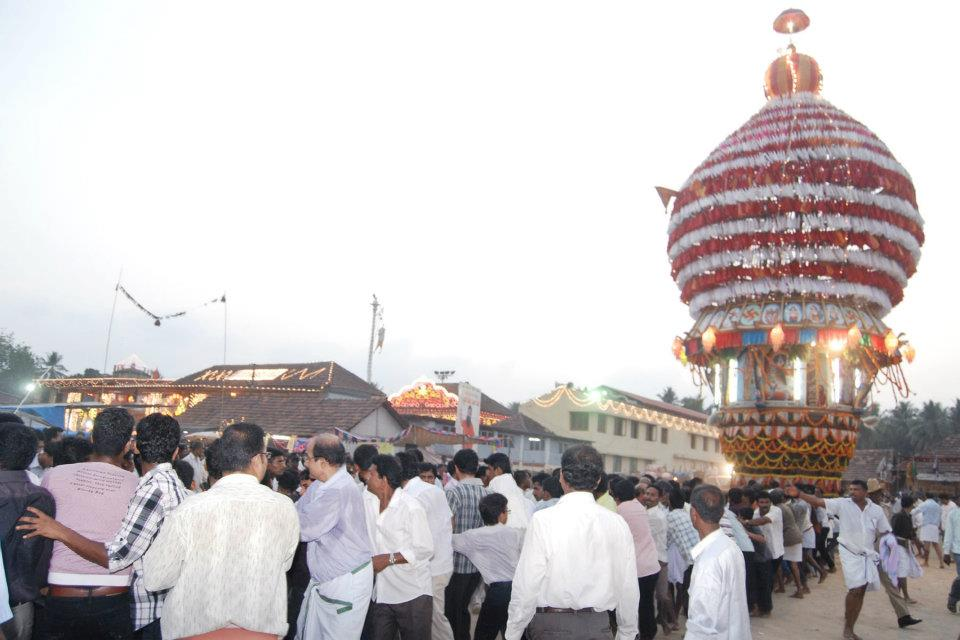 Polali Shri Rajarajeshwari temple car